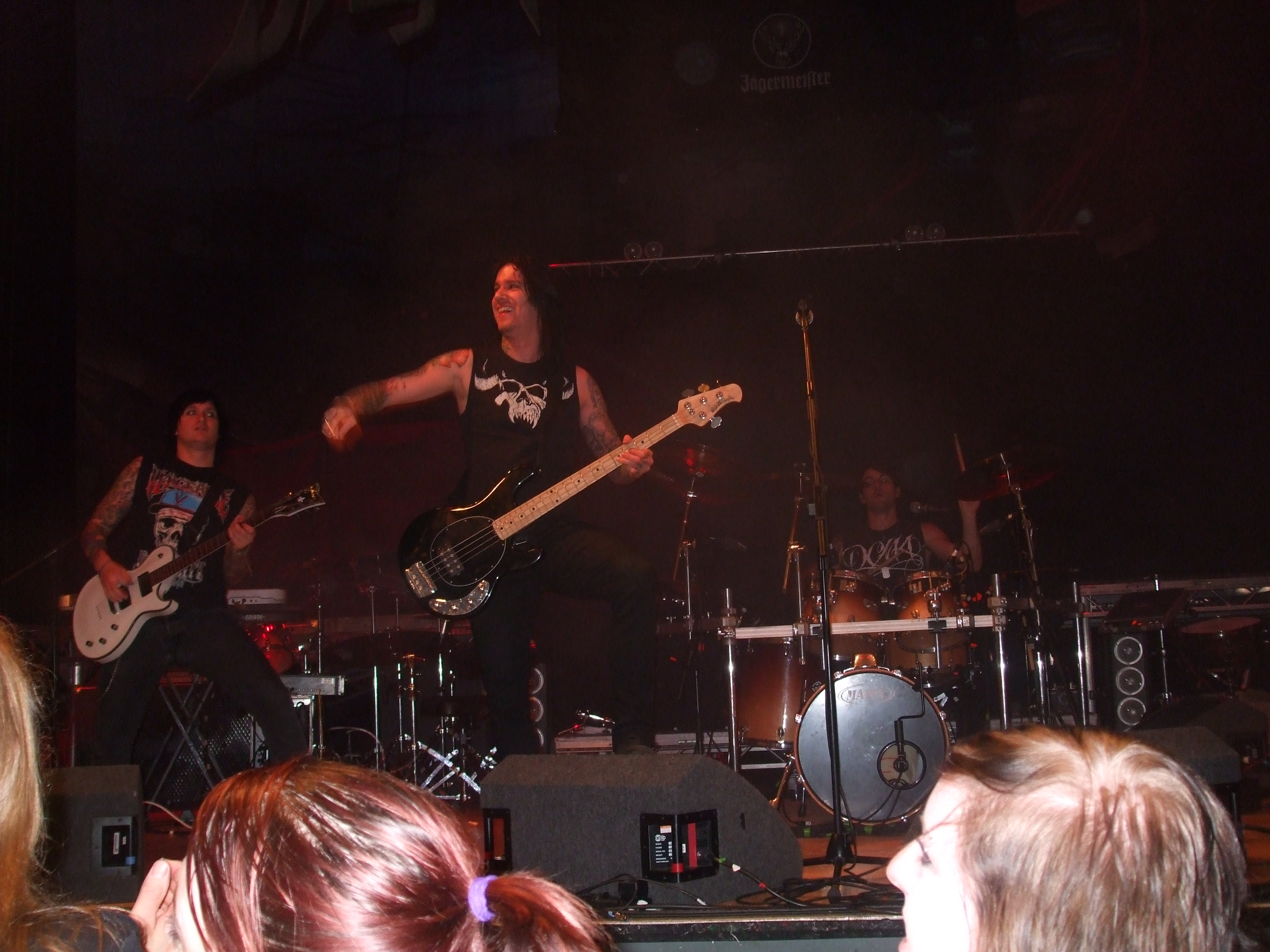 Glamour of the Kill performing at the Victoria Hall, Hanley on December 1st 2009. Opening act for DragonForce.